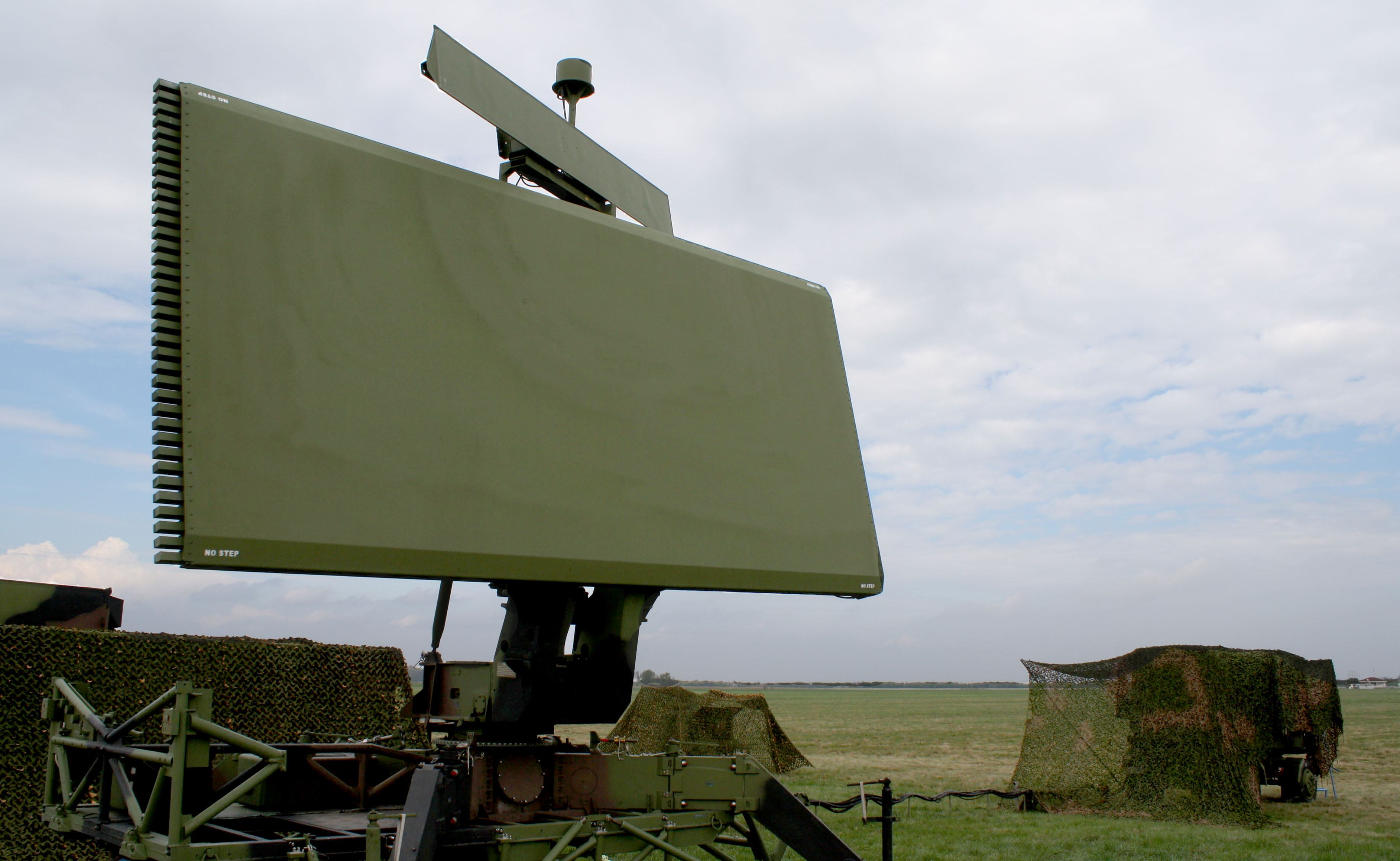 AN/TPS-70 radar of Serbian Air Defense on display at Batajnica airbase during the Batajnica 2012 open day.